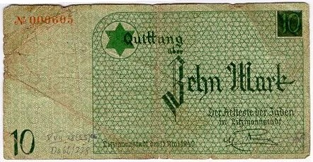 Concentration camp scrip from Ghetto Litzmannstadt